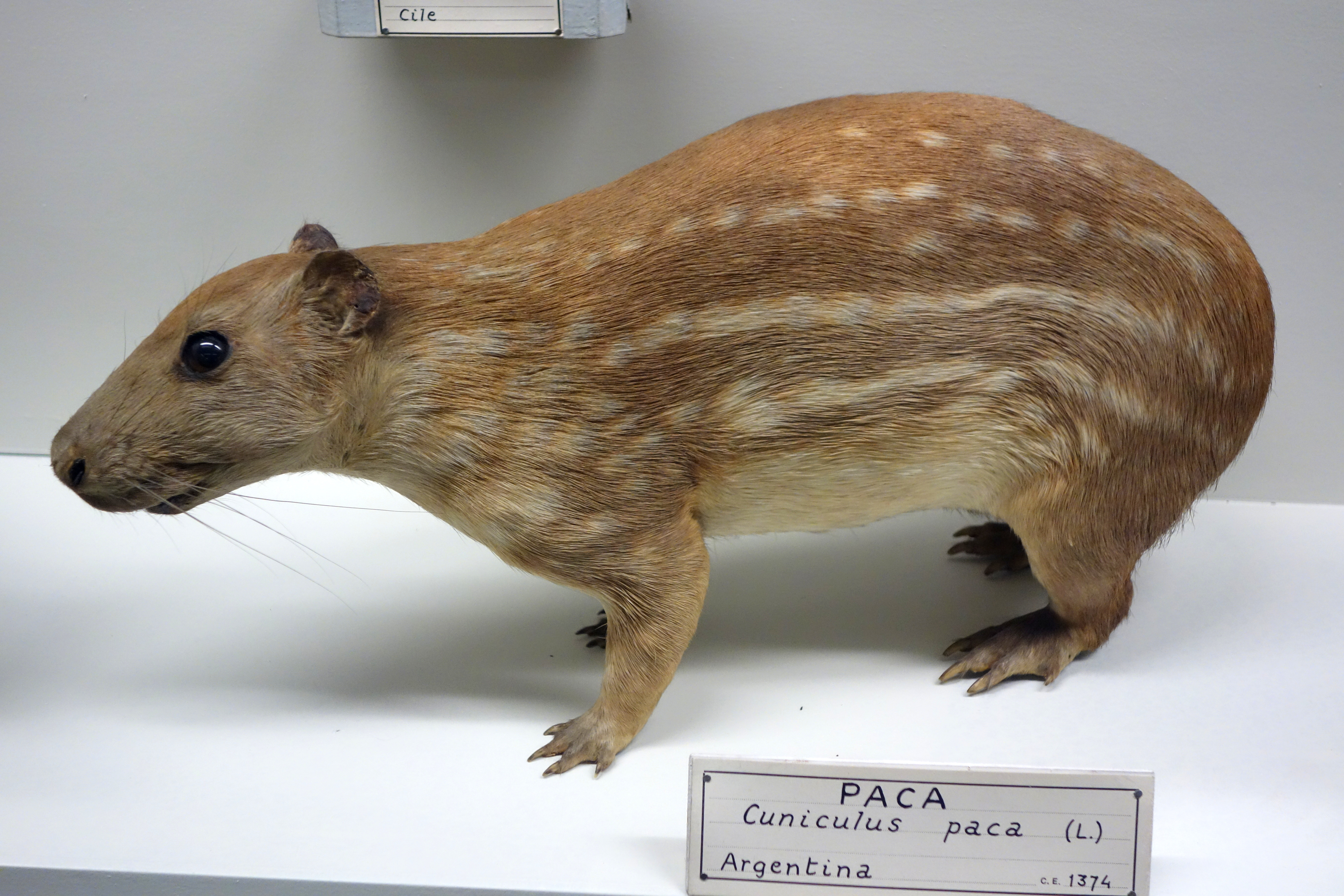 Exhibit in the Museo Civico di Storia Naturale di Genova, Via Brigata Liguria, 9, 16121, Genoa, Italy.